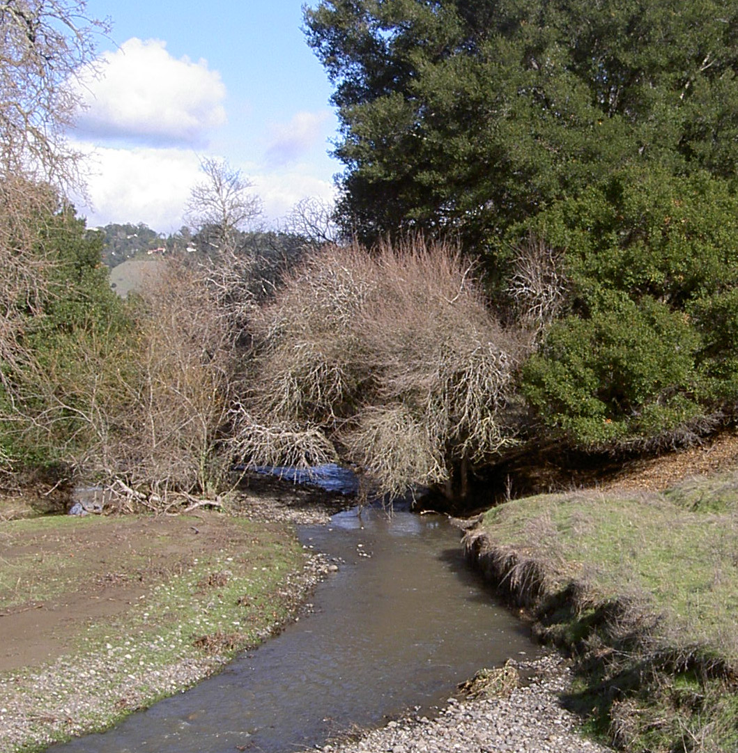 Crane Creek, looking east from Petaluma Hill Road